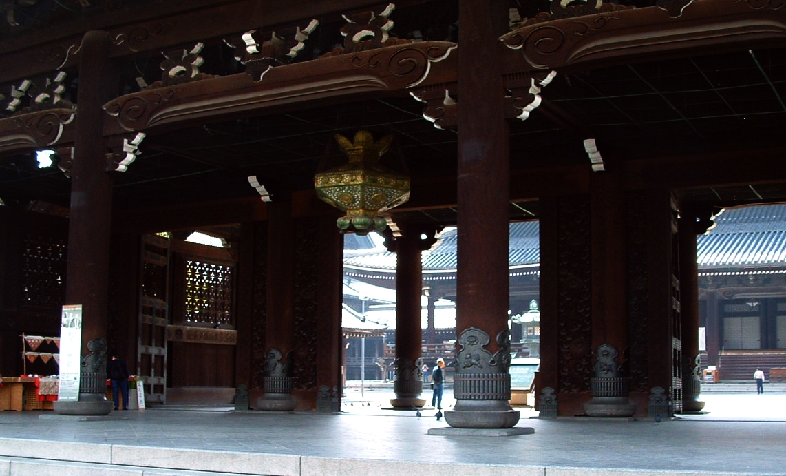 Higashi Hongan-ji entrance